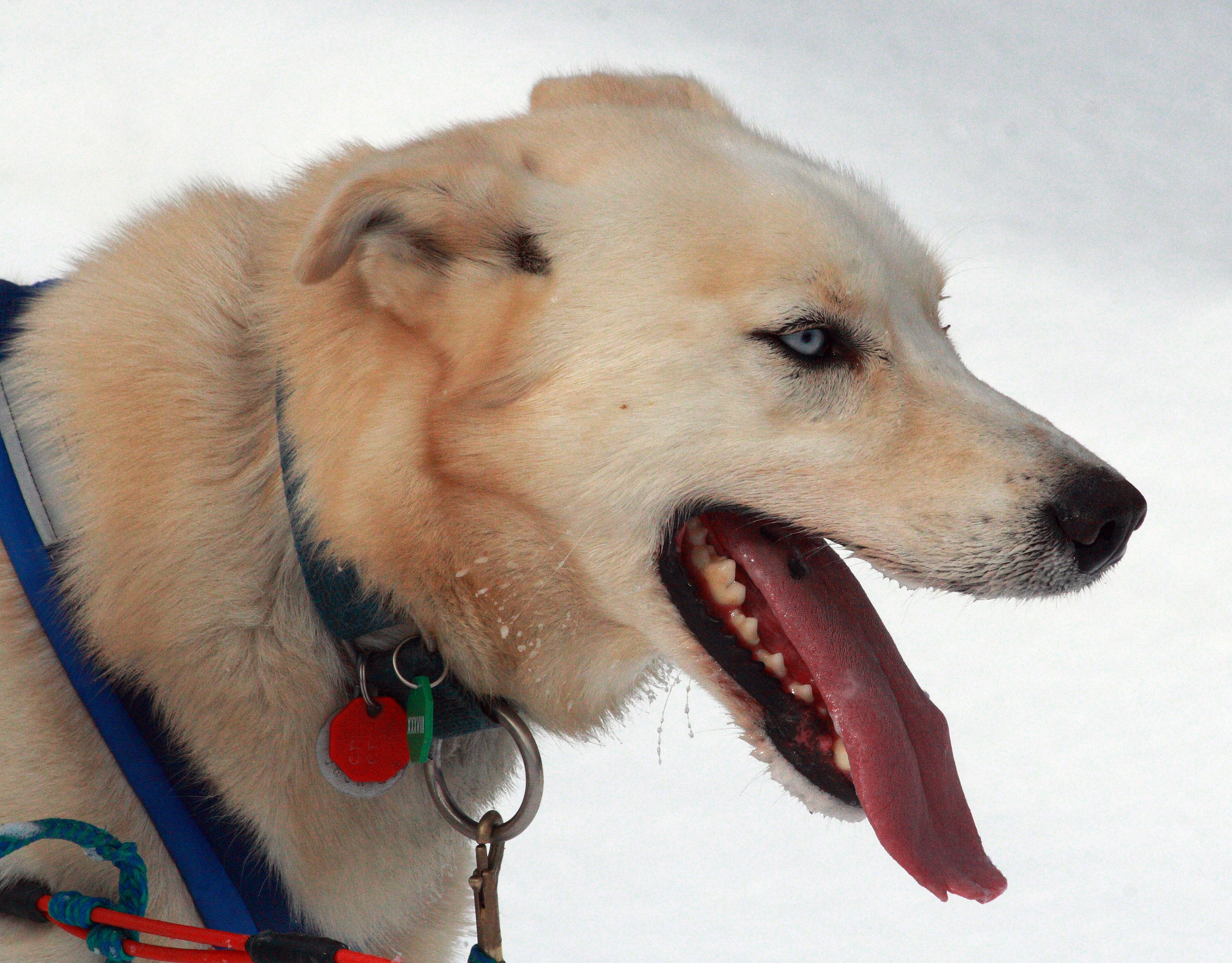 I took these photos on 6 March 2010 at the ceremonial start of the Iditarod dog sled race. The real start is from Willow. The Iditarod is known as "the last great race". It goes 1,100 miles from Willow to Nome through unforgiving terrain and downright nasty weather. I took these photos between Goose Lake and APU. What a great day to be an Alaskan!